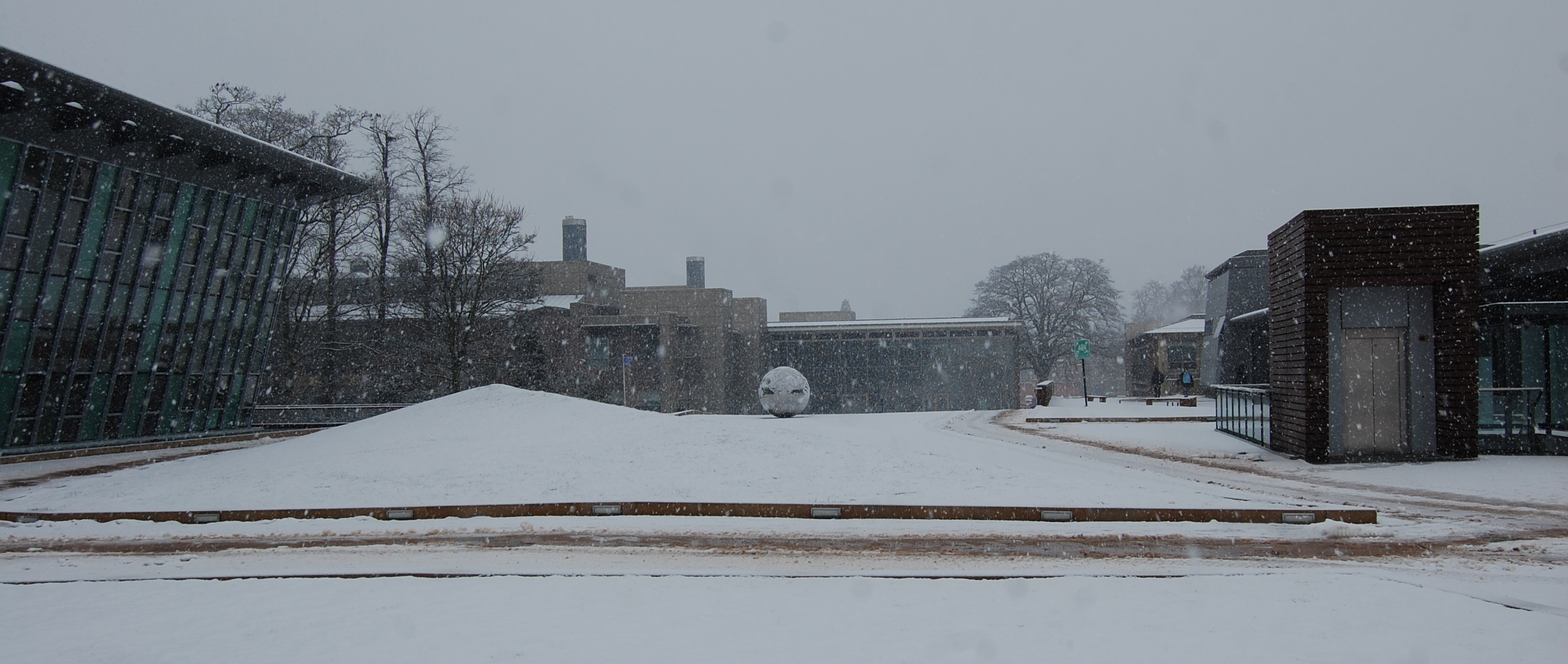 Wellcome Trust Genome Campus, Winter 2009, Morgan building (left) and Sulston building (background)